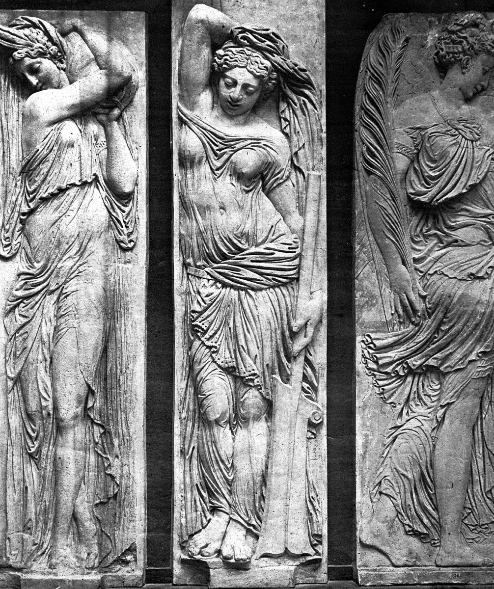 Fontaine des Innocents [reliefs]; Louvre, Paris. Louvre, Paris, France. Fontaine des Innocents [reliefs]; Louvre, Paris. Brooklyn Museum Archives, Goodyear Archival Collection (S03_06_01_020 image 2566).